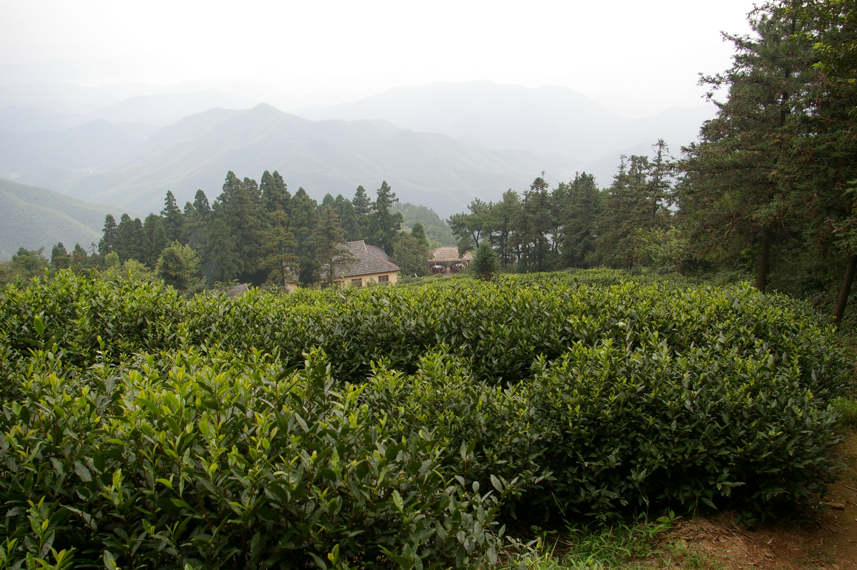 Tea plantation on Mount Mogan in China